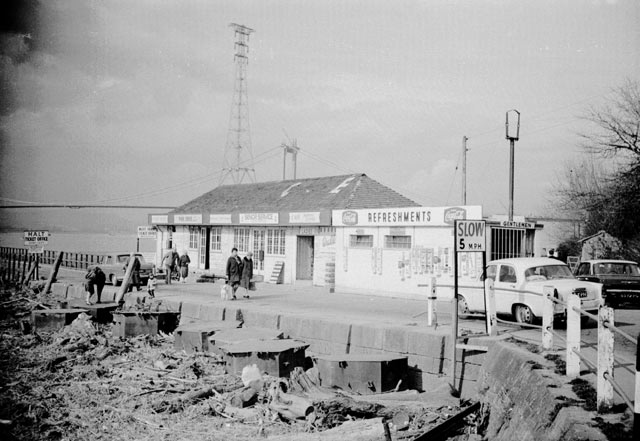 Aust Ferry Terminal. Before the (first) Severn Bridge was built - visible under construction in the background - a ferry ran from Aust to Beachley.